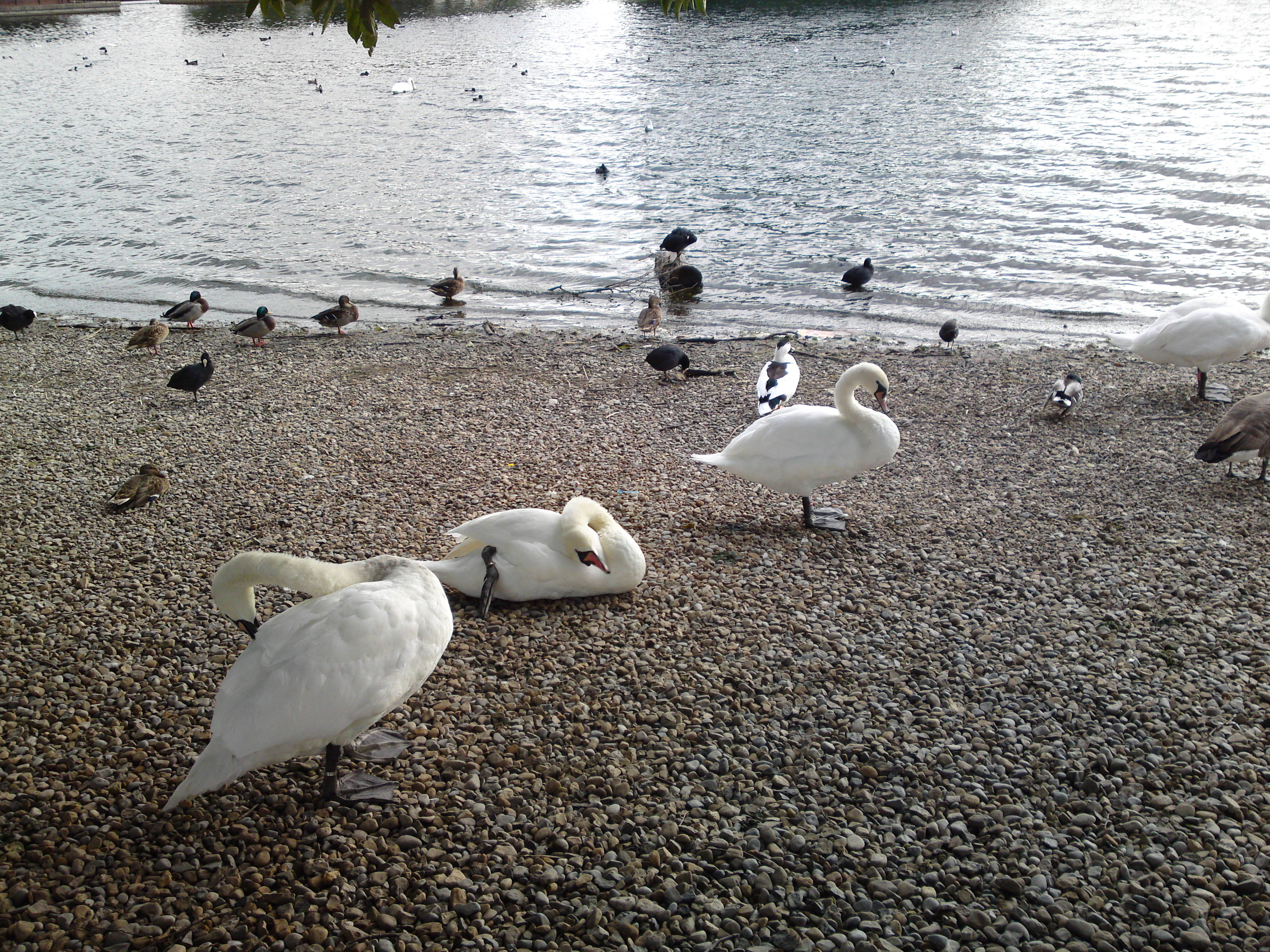 Preening Mute swans at Doncaster Lakeside.Note the pinkish hue to feet which differeniates them from ordinary mute swans